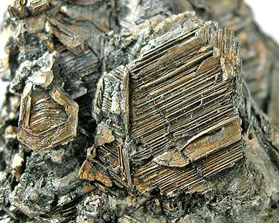 Bismuth Locality: Pöhla-Tellerhäuser Mine, Pöhla, Schwarzenberg District, Erzgebirge, Saxony, Germany (Locality at ) Size: small cabinet, 6.8 x 4.5 x 3.1 cm Bismuth "Federwismuth," as the Germans called it - this is CLASSIC crystallized native bismuth from the Pohla Mine, possibly dating back more than 100 years although they were found in small pockets of the quarry as recently as the 1970s I am told. This particular specimen has a mesmerizingly complex display face with sharp "feathers" of stepped, elongated crystals to 2.5 cm, capping a knoll of ore matrix. For the size and price range, I imagine it would be hard to find a better one easily. From the collection of well-known German collector, Paul Stahl